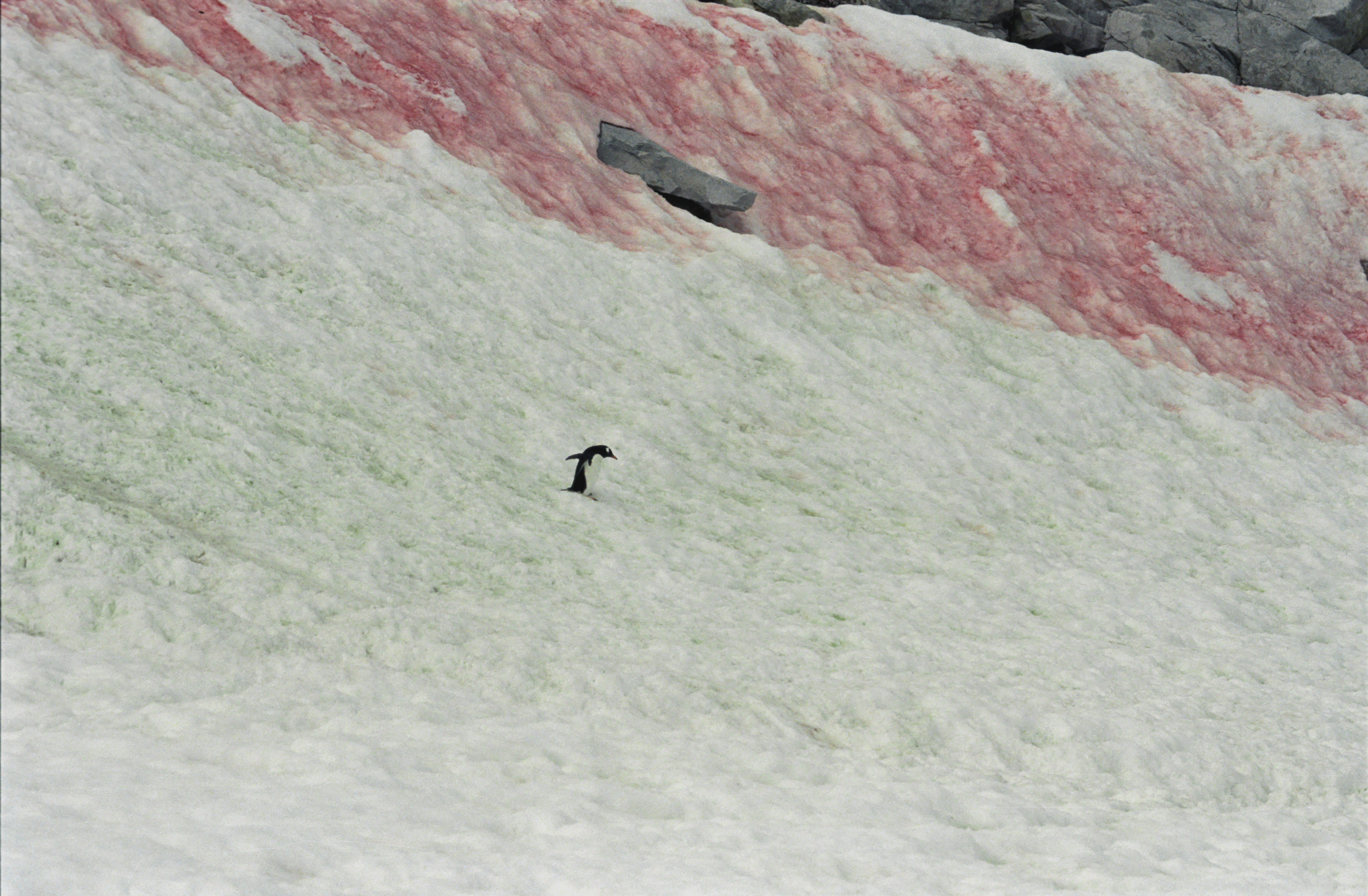 Neko Harbour, Antarctica